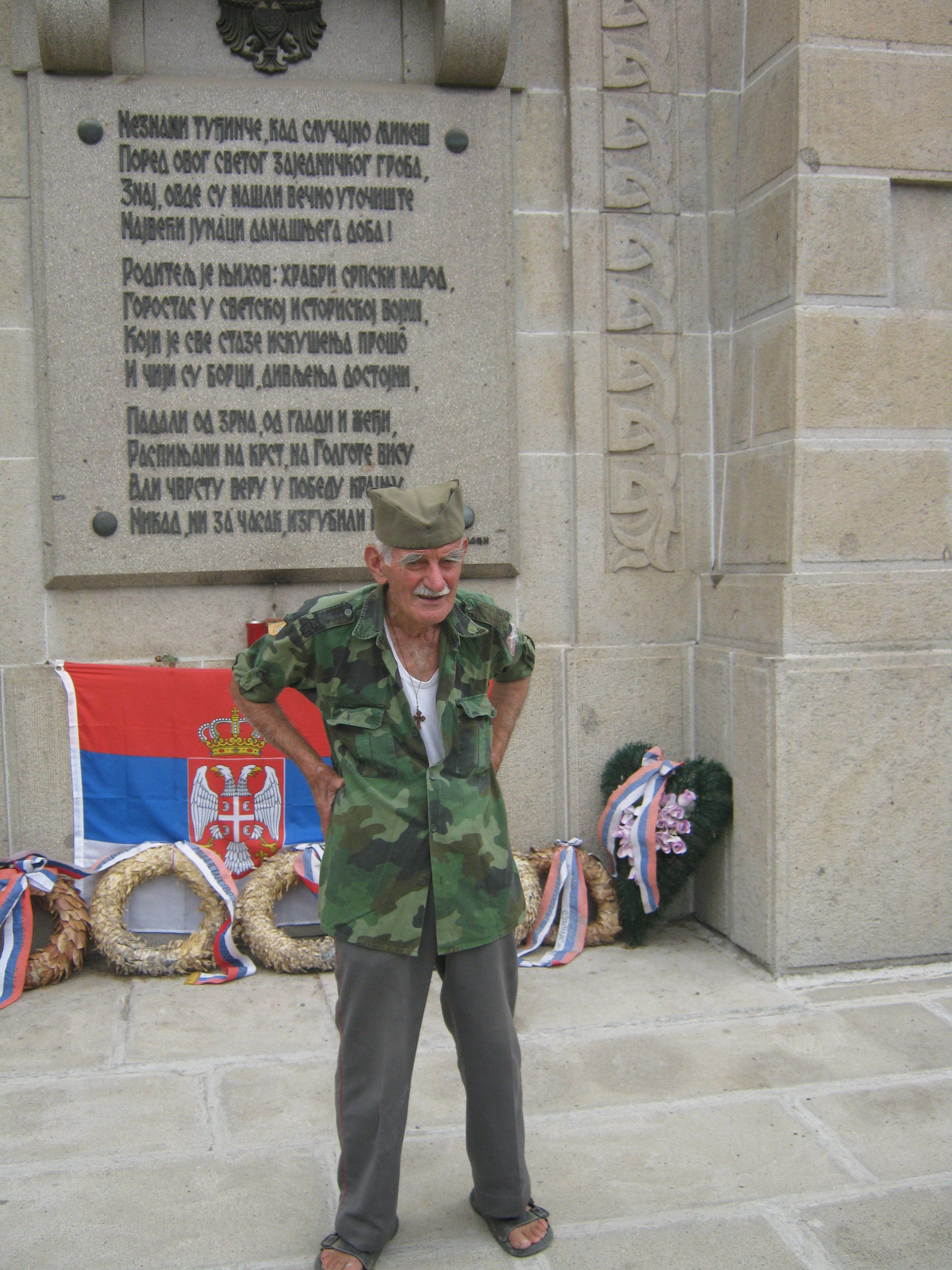 Đorđe Mihailović in 2012 at age 85.